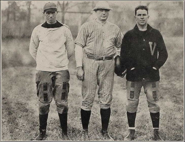 Vandy Coaches Wallace Wade, Dan McGugin, and Lewie Hardage in 1922.